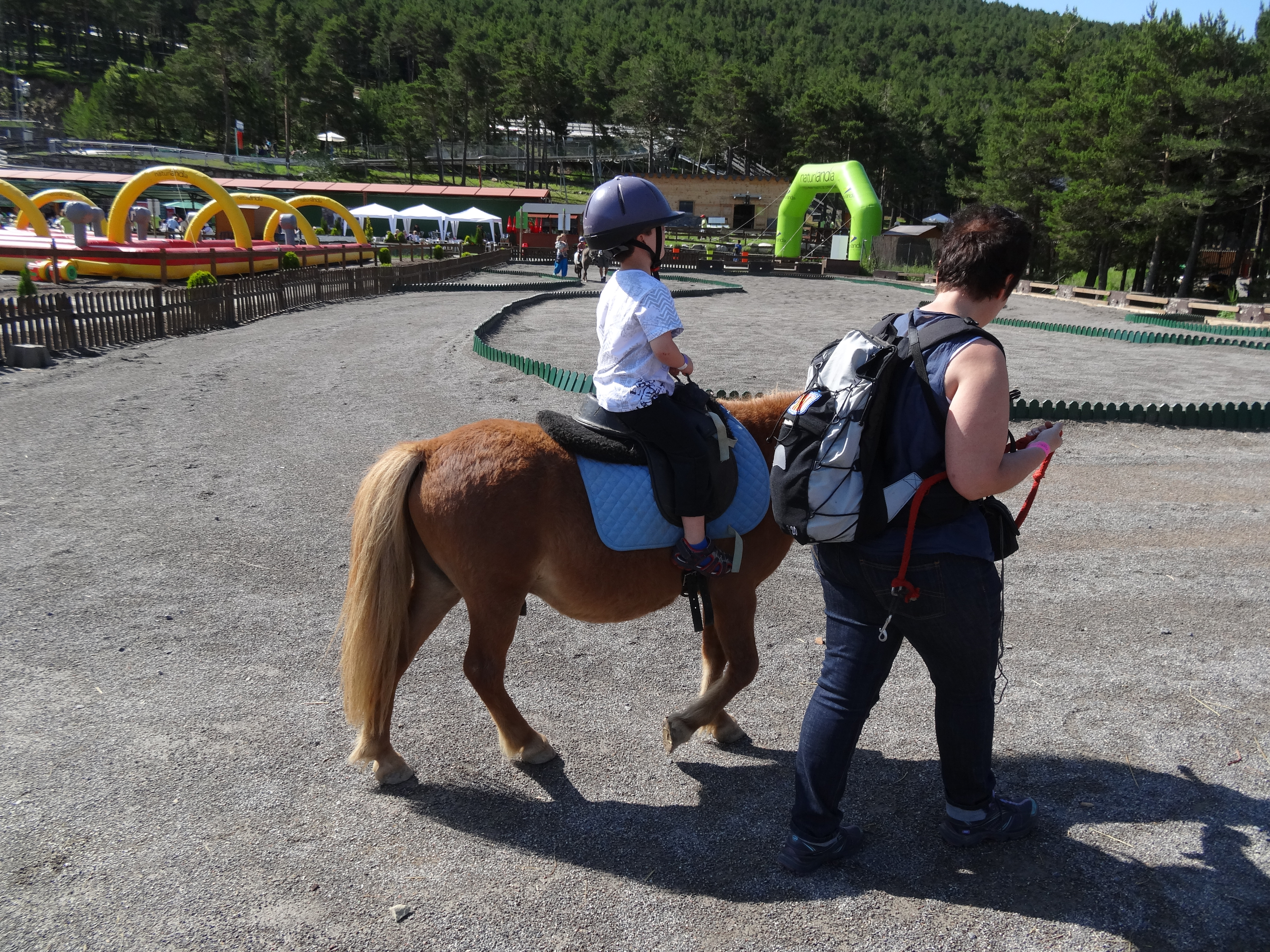 Naturlandia amusement park (Andorra)